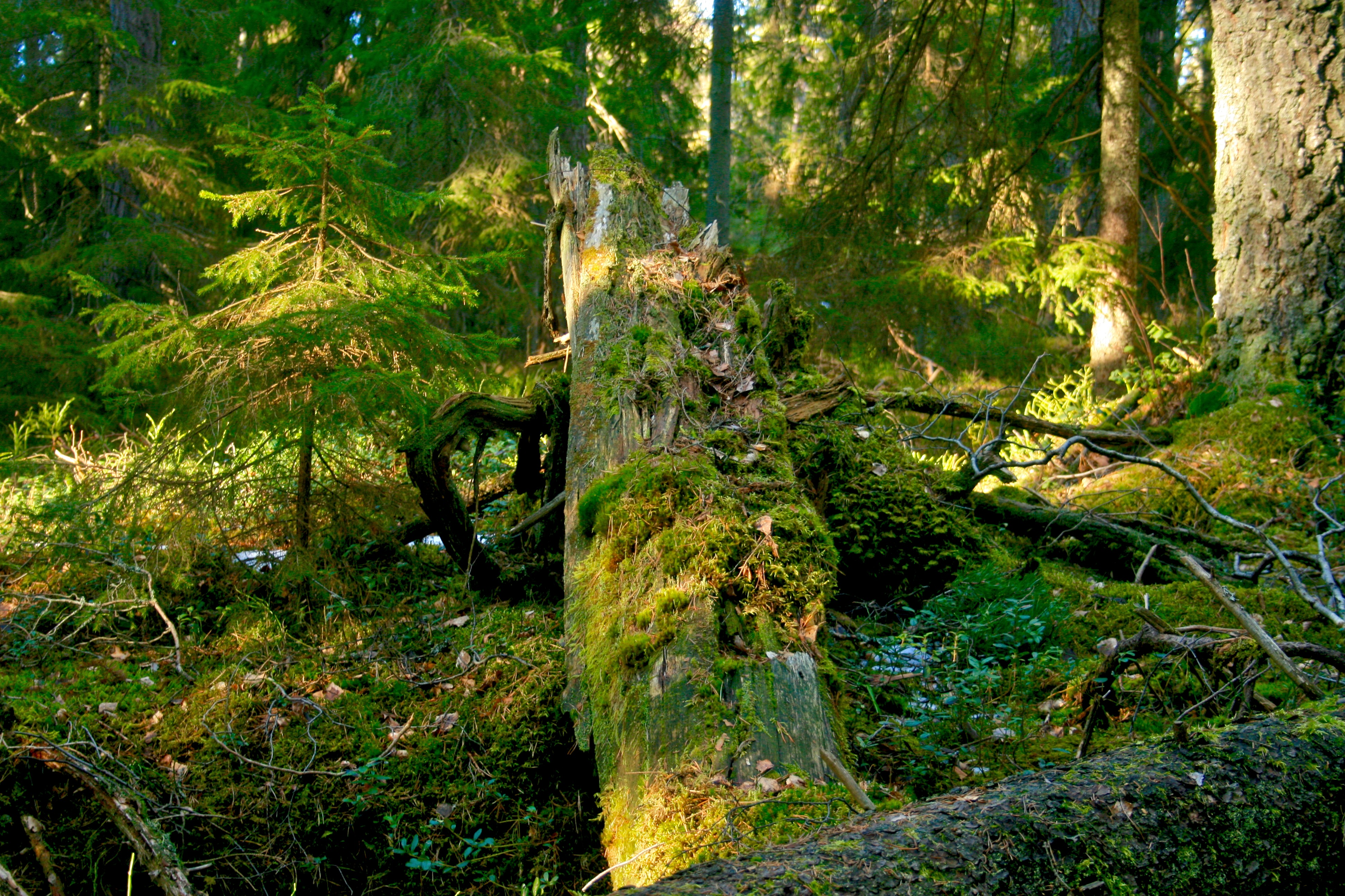 Dead wood in spruce forest of Tyresta